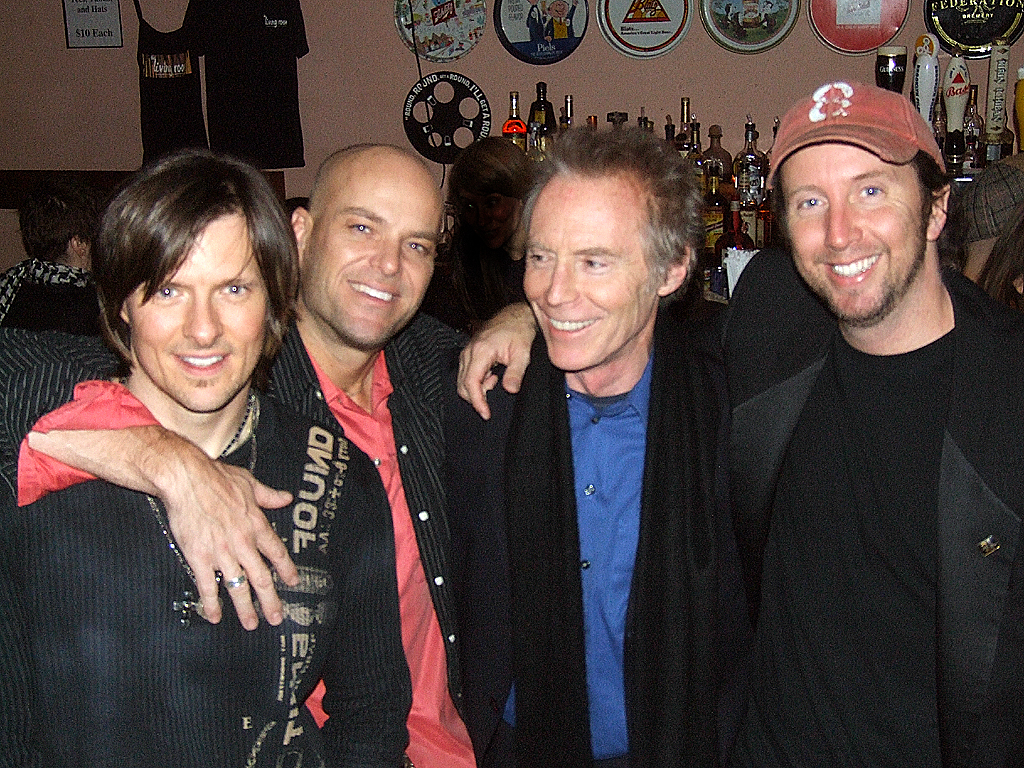 One Flew South with J.D. Souther photographed on 11-27-07 at The Living Room in NYC by Anthony Pepitone. From left to right: Eddie Bush, Royal Reed, J.D. Souther, Chris Roberts.